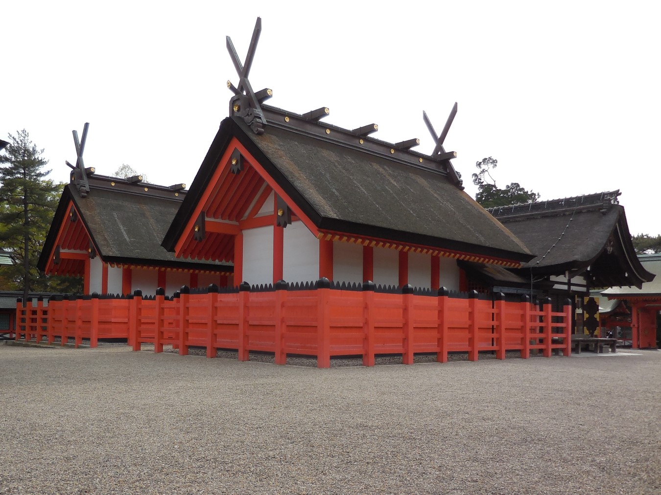 Sumiyoshi Taisha Hongu 3 and 4 (back)